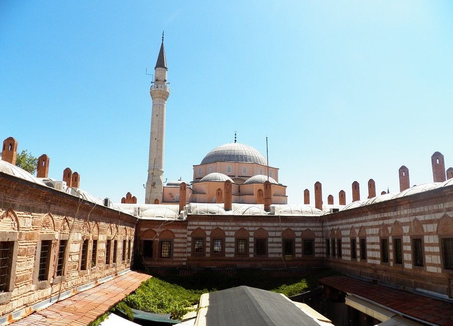 Outside view of Hisar Mosque in İzmir